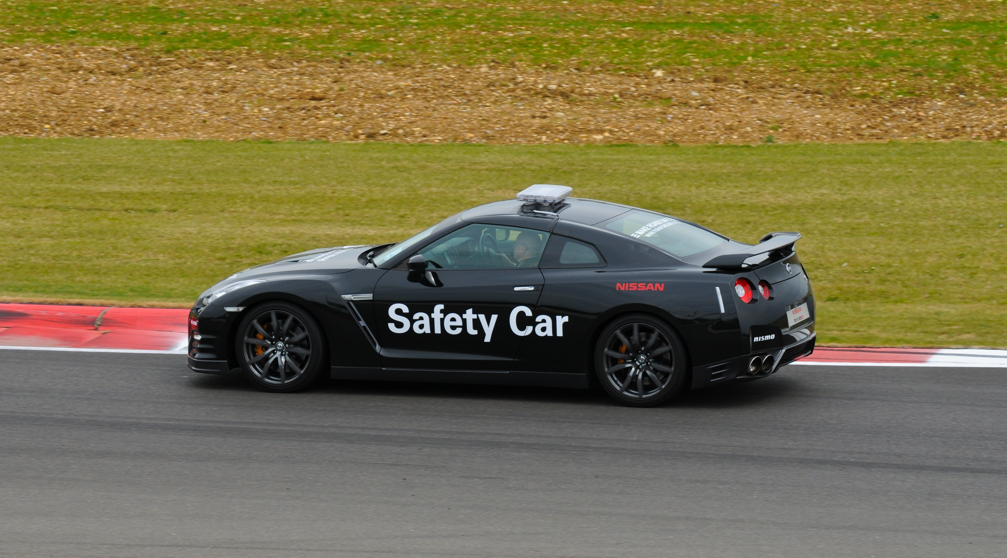 2011 FIA GT1 Silverstone round